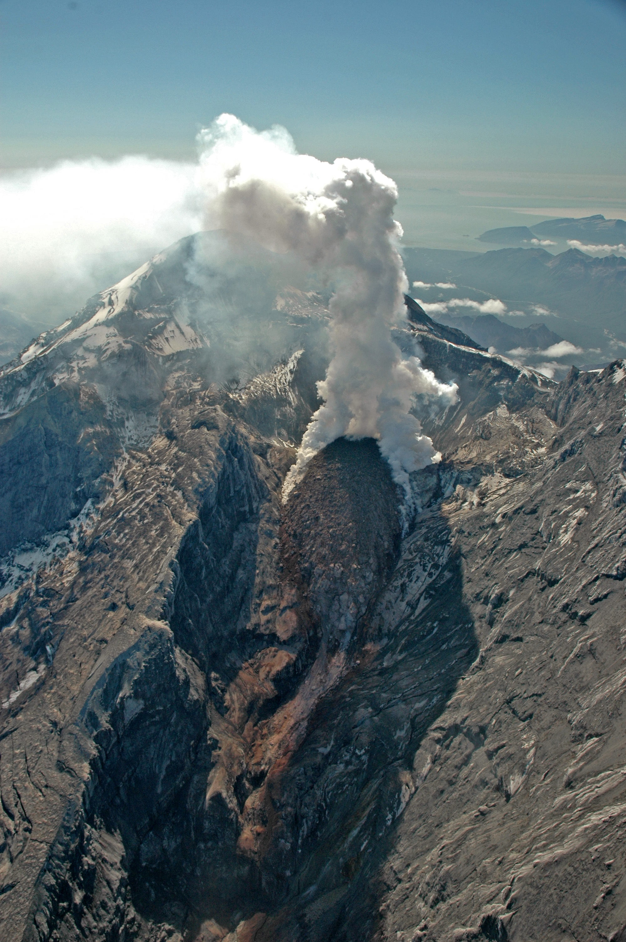 Eruption of Mt Redoubt, Alaska - lava dome in the summit crater spilling over from the crater. Size of dome at time of this image: about 1000m long, 450m wide, 200m high. Original caption: The active lava dome growing in the summit crater of Redoubt Volcano.